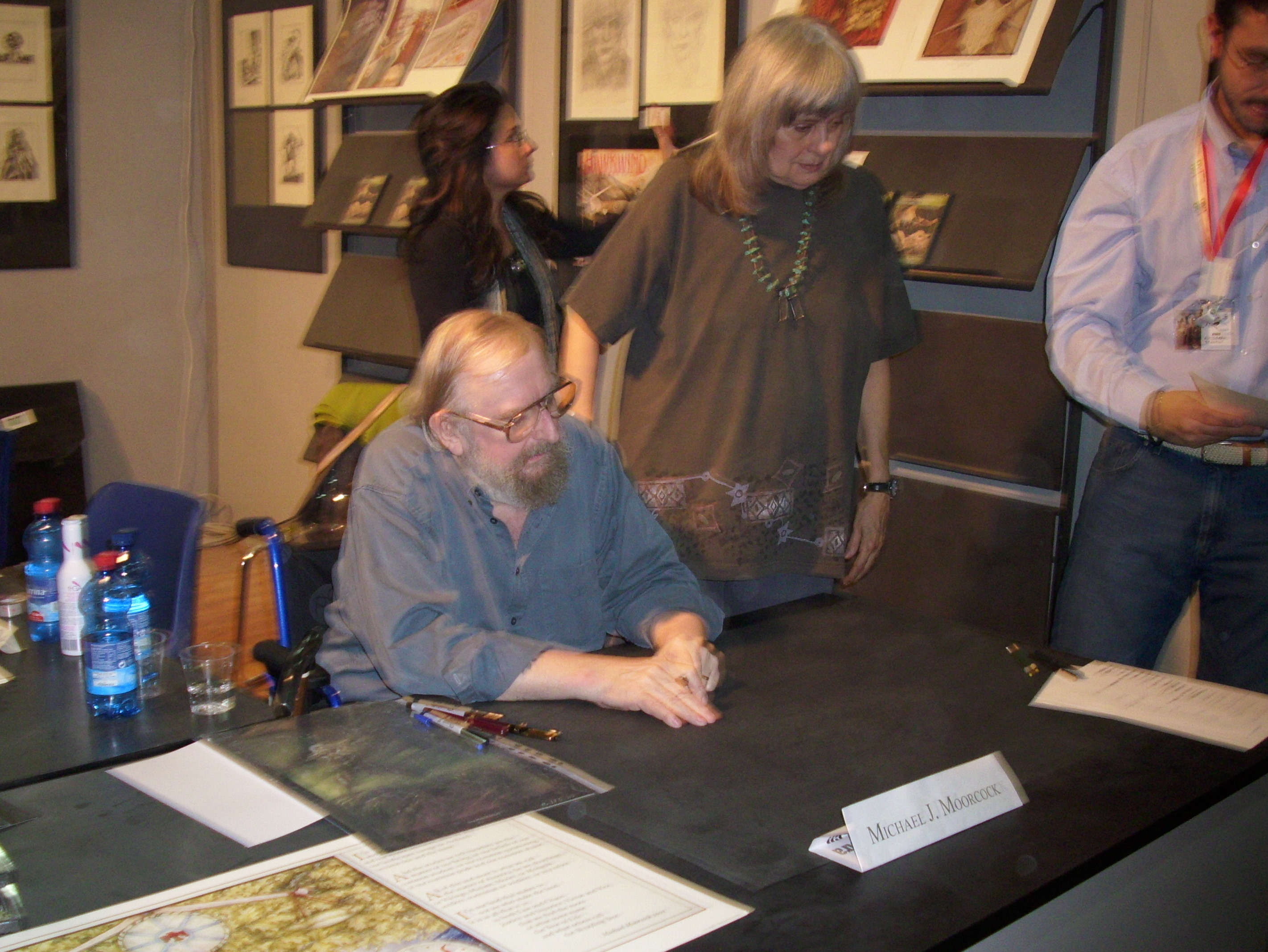 Michael Moorcock at Lucca Comics&Games 2009 convention